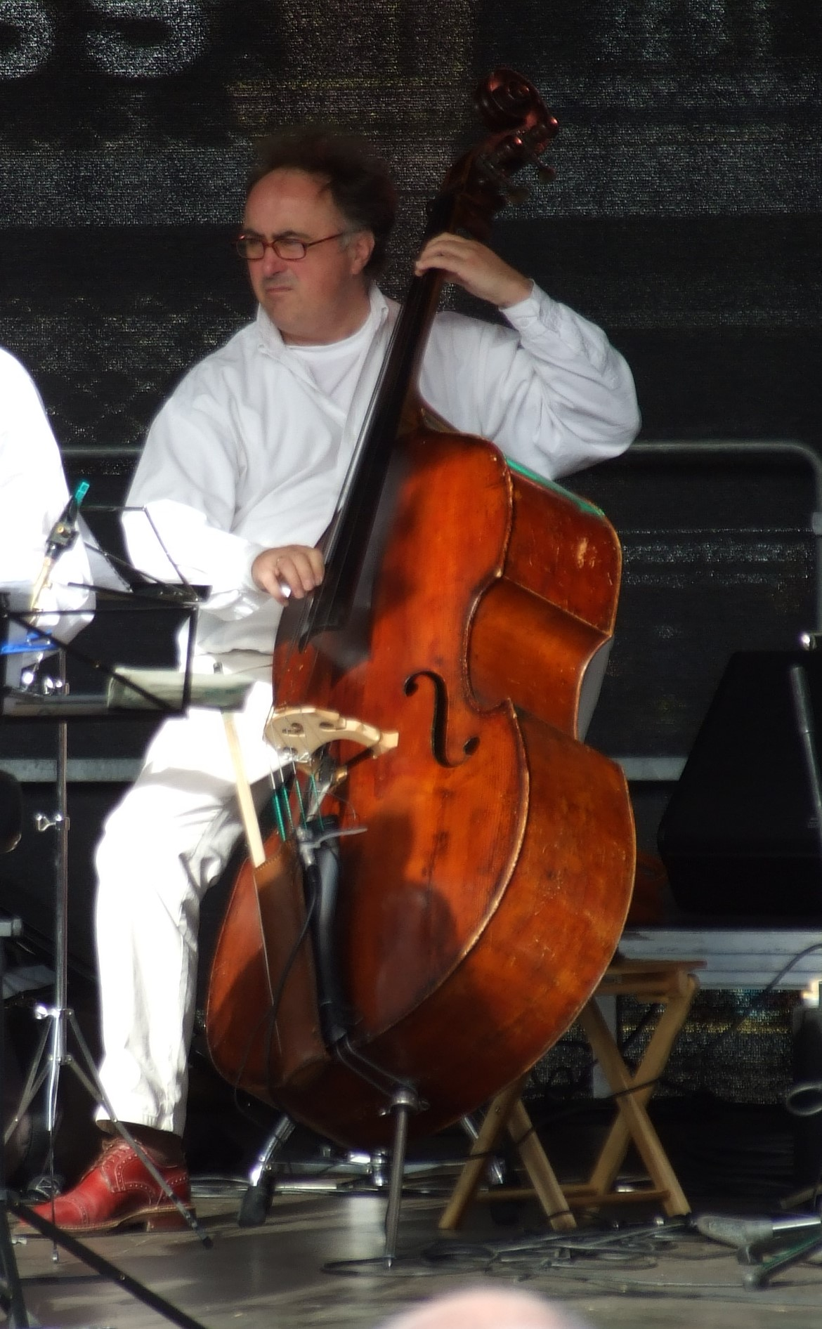 Vitold Rek by "Jazz zum Dritten", as member of "Emil Mangelsdorff Quartett" at "Roemerberg" in Frankfurt on National Day (2009)